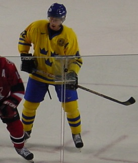 Jörgen Jönsson on ice during the Salt Lake City 2002 Winter Olympics.